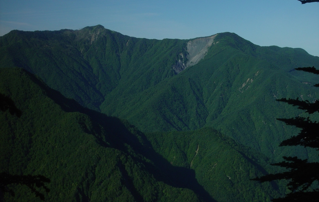 Mount Okuchausu and Mount Maechausu seen from Torikura route in Ōshika, Nagano prefecture, Japan.